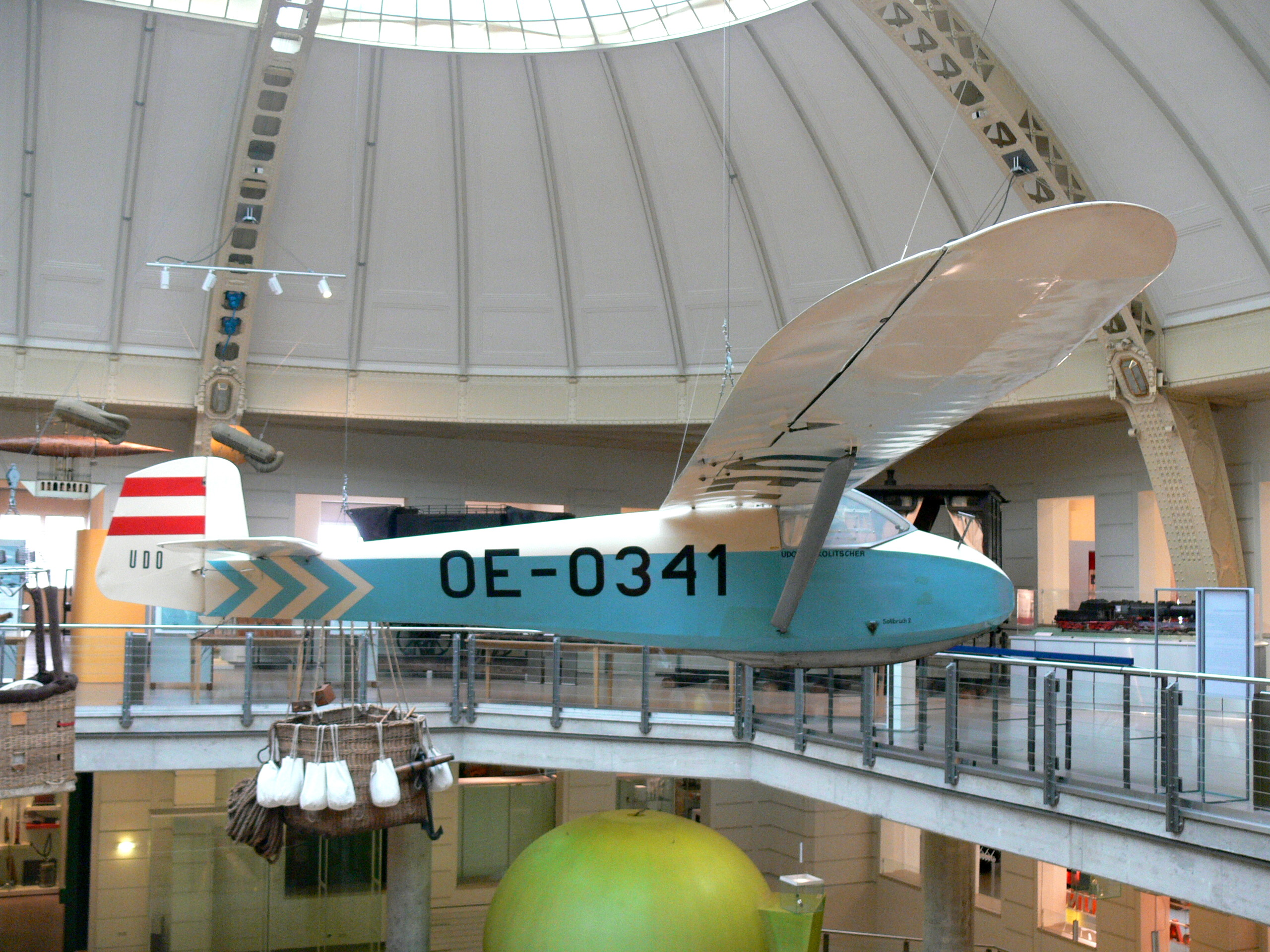 Technical Museum Vienna. Hütter H 17 b glider ( 1956 )